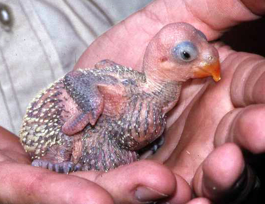 Psittacula eques echo chick being hand-reared in Black River Aviaries, Mauritius